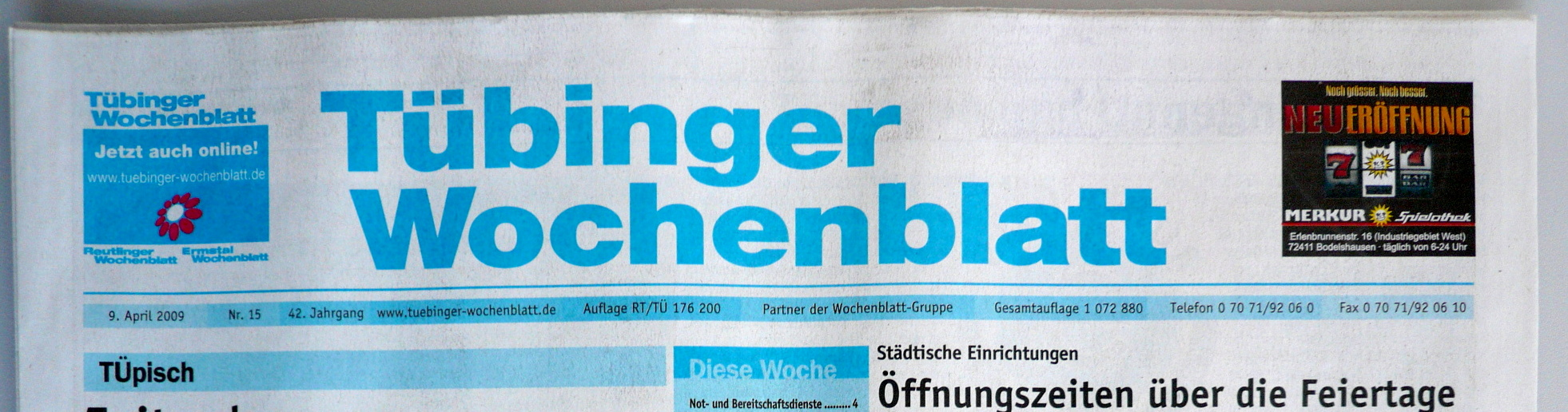 Header of free weekly newspaper "Tuebinger Wochenblatt"